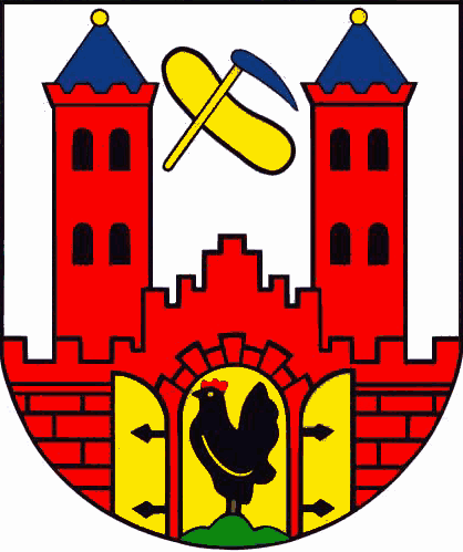 Coat of arms of Suhl